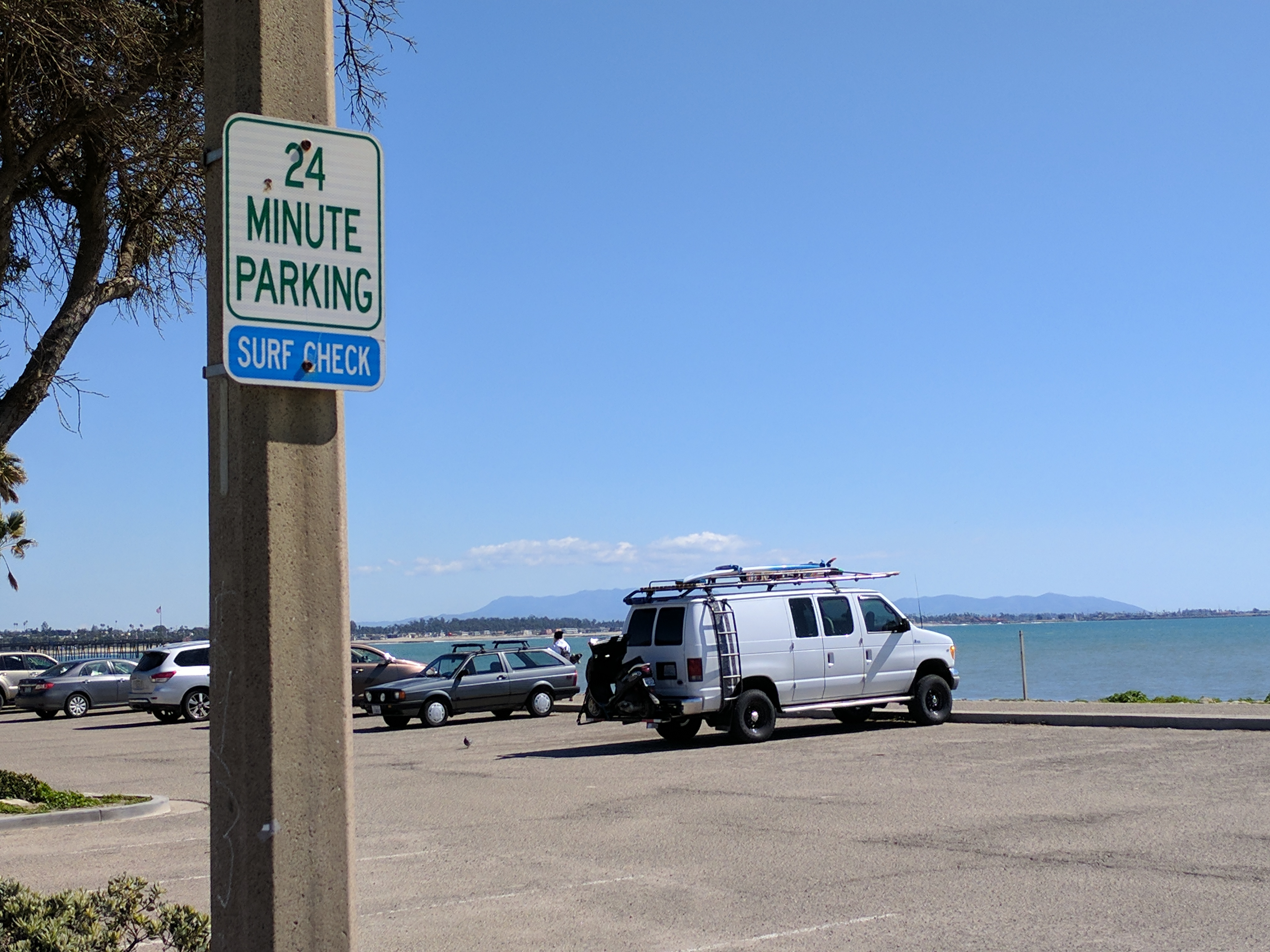 Sign at Surfer's Point, Ventura, California which says "24 minute parking Surf Check"